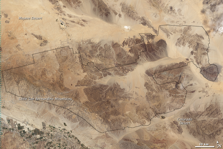 Joshua Tree National Park, California NASA image created by Jesse Allen, using park boundary geographic data (GIS) provided the U.S. National Park Service and Innovative Technology Administration's Bureau of Transportation Statistics, and Landsat data from the United States Geological Survey. Caption by Rebecca Lindsey.